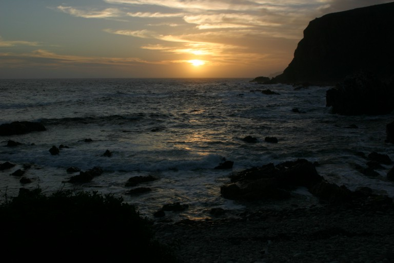 Scene on Otter Trail, South Africa, Sunset from Andre Huts at the Kliprivier mouth